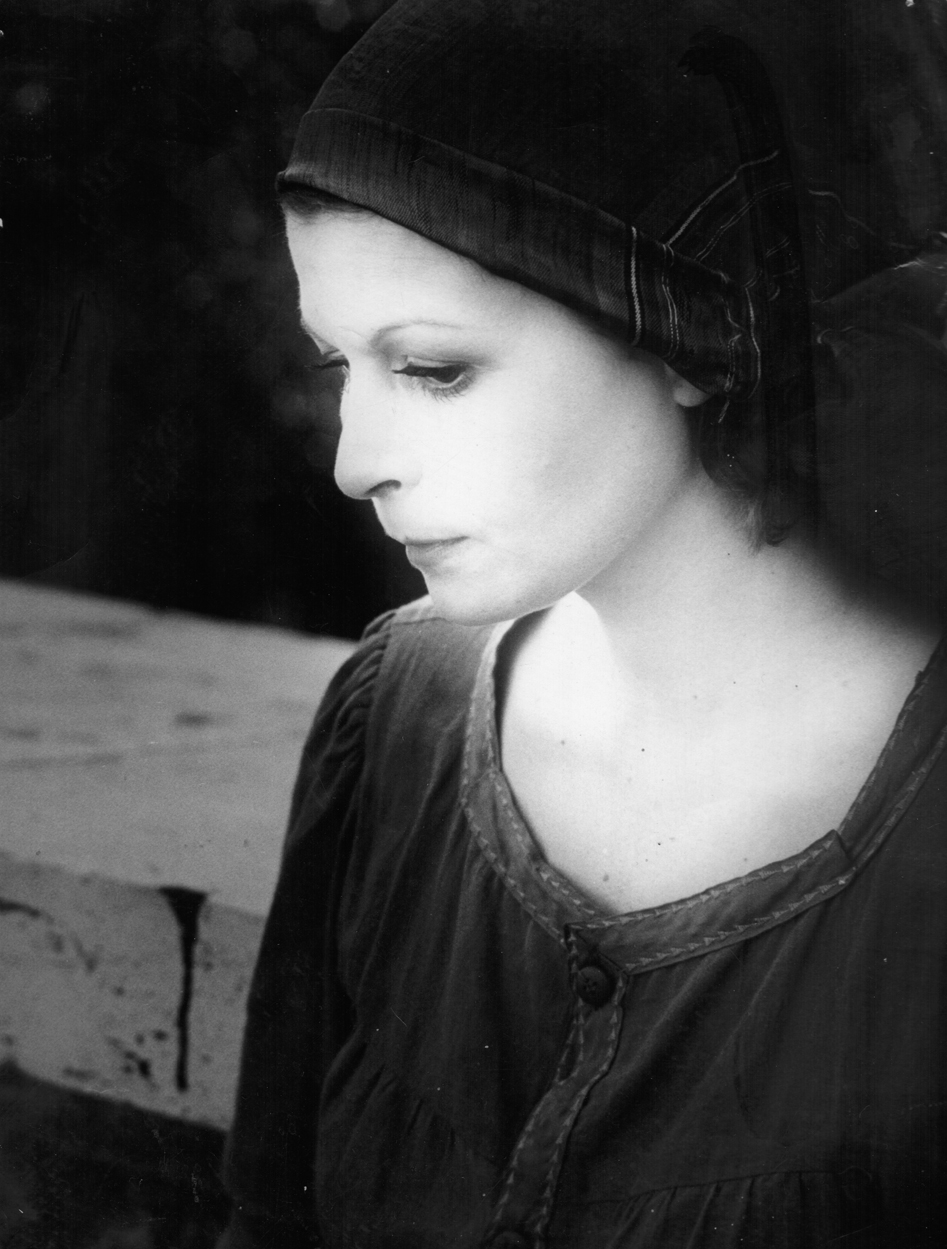 It is a portrait of my aunt, a theatre actress. The photo was taken in Bari in 1977